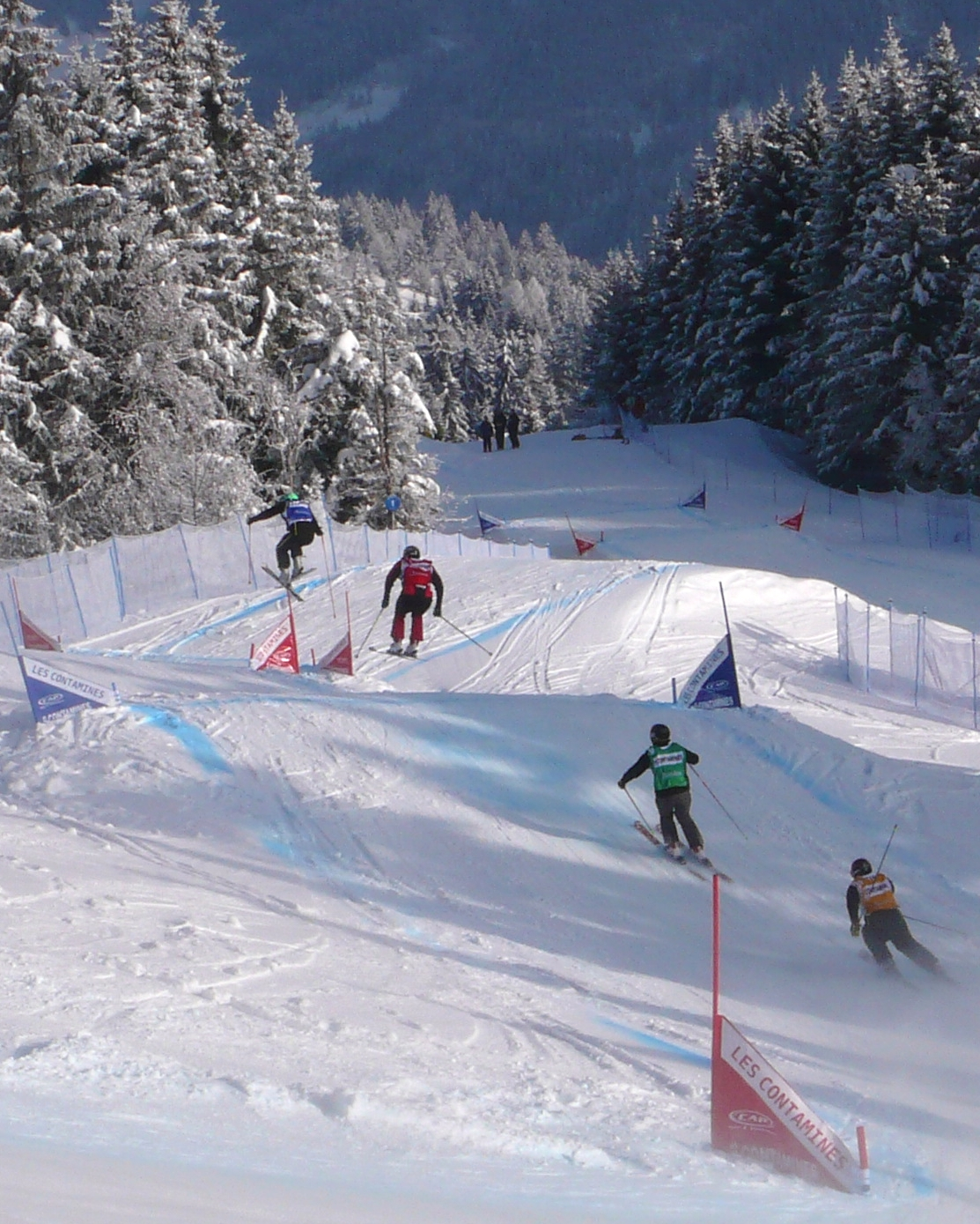 Ski Cross World Cup at Les Contamines-Montjoie, 1/8 final: Beni Hofer, Christopher Delbosco, Sylvain Miaillier, Richard Spalinger.